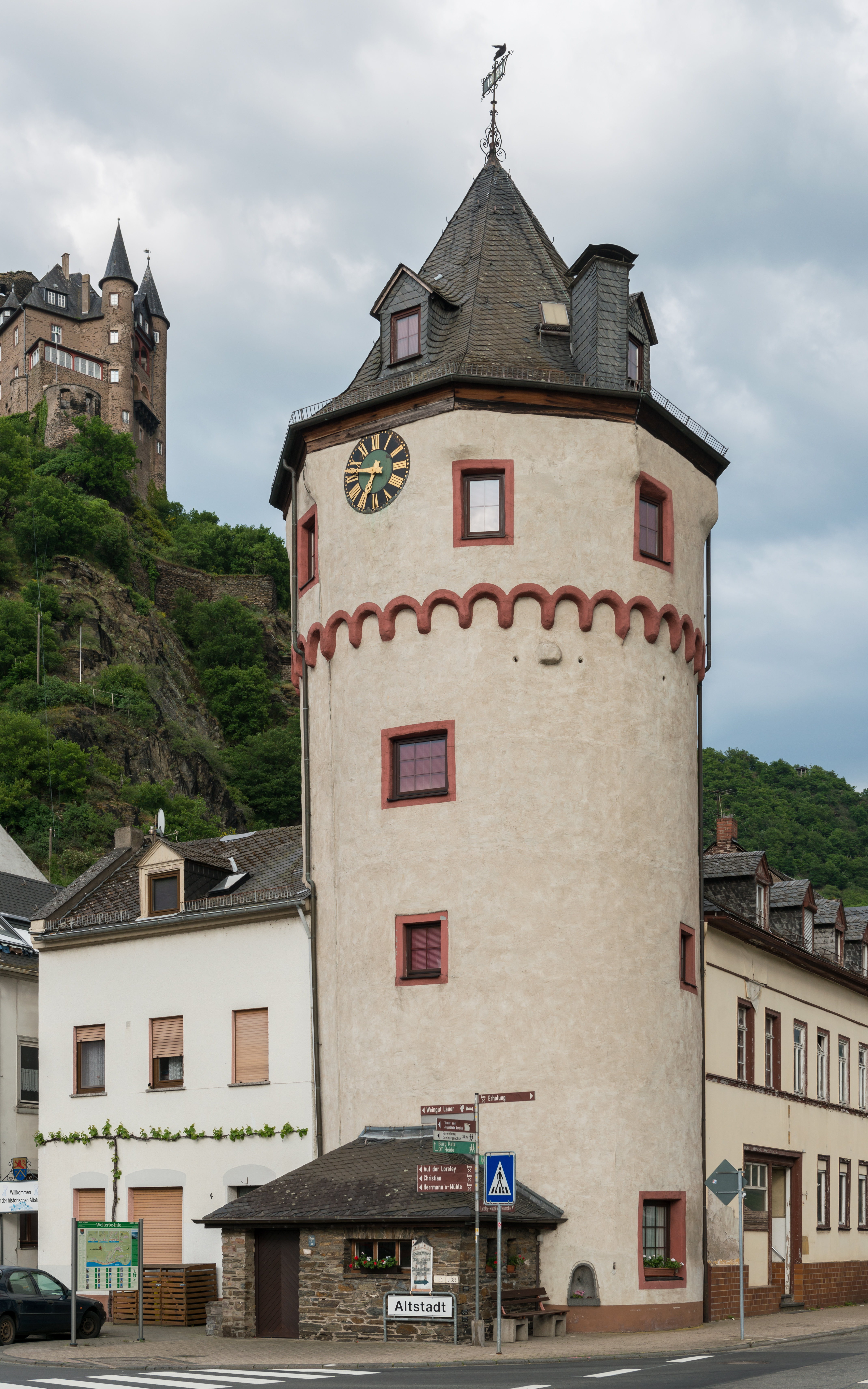 The "Runder Turm" (round tower) in St. Goarshausen